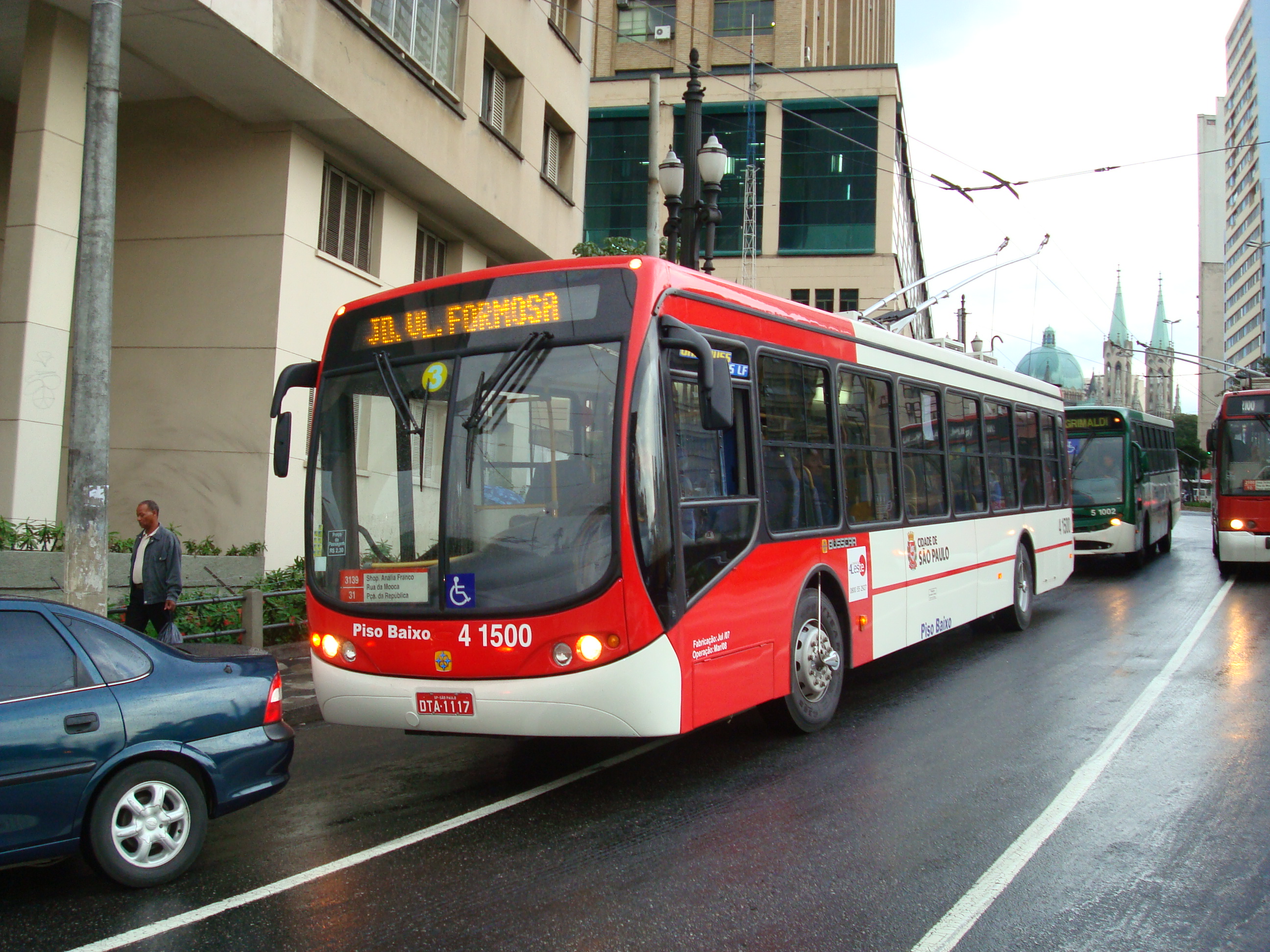 Trolleybus built in 2007 by Busscar and WEG Industries for São Paulo, Brazil. Seen at Av. Rangel Pestana, near Parque Dom Pedro II. It is a low-floor (piso baixo) model.